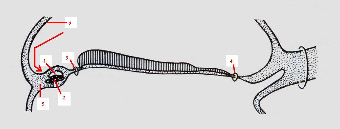 heart embryonic development